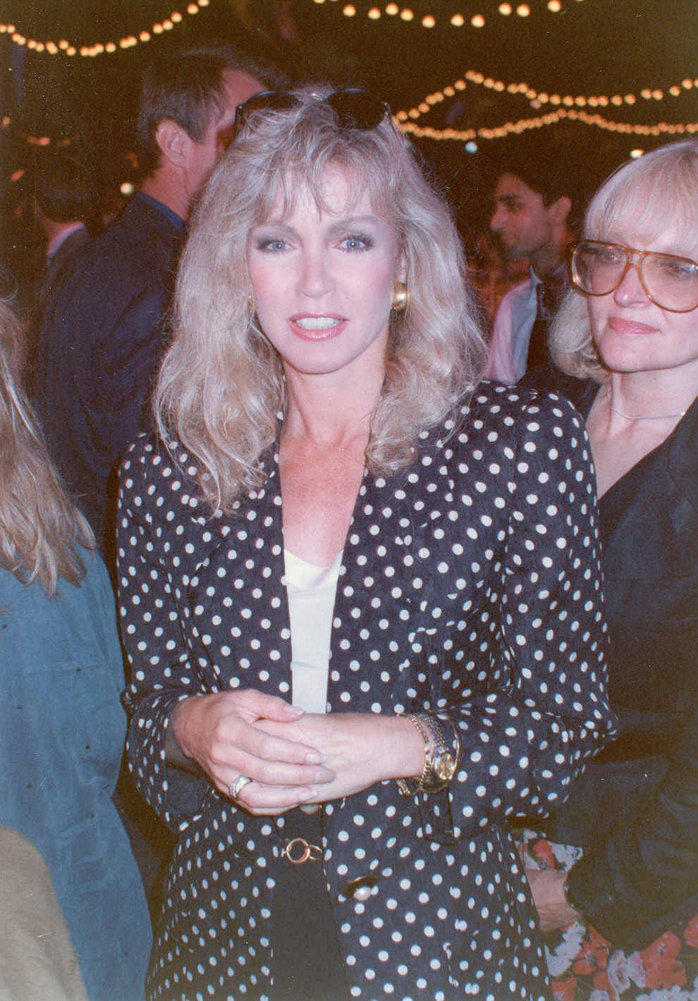 Photo taken at the AIR AMERICA movie premiere 1990